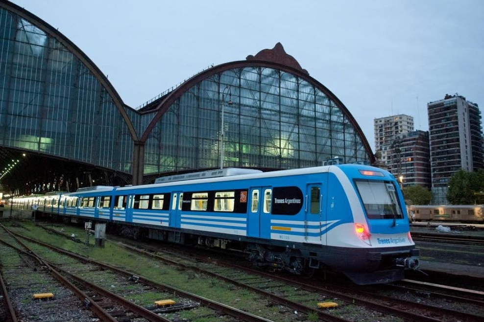 A CSR electric multiple unit leaving Retiro station of General B. Mitre Railway, Buenos Aires, Argentina